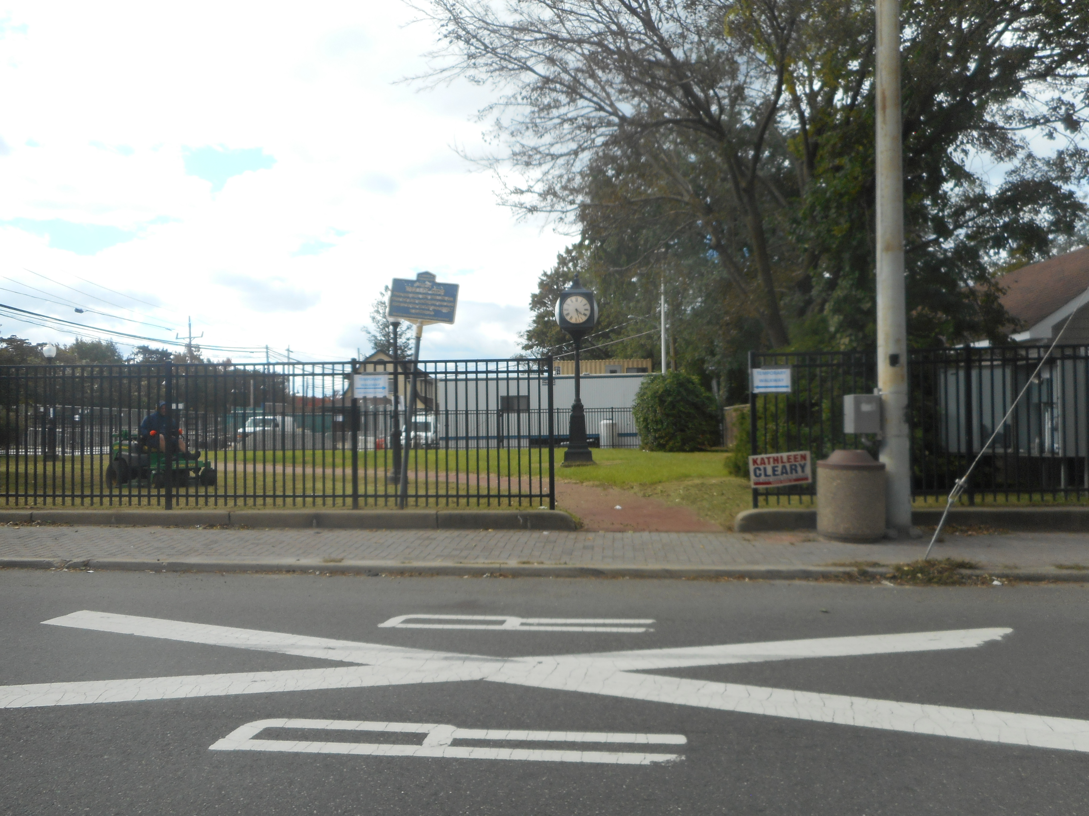 Historical marker for the trolley stop of the Northport Traction Company on Vernon Valley Road at the Northport LIRR station in East Northport, New York. The station is along the Port Jefferson Branch, which was expanded east of Greenlawn, and after the abandonment of the Northport Branch to freight in 1899, the trolley line began here and ran into Northport Harbor from 1902 to 1924.